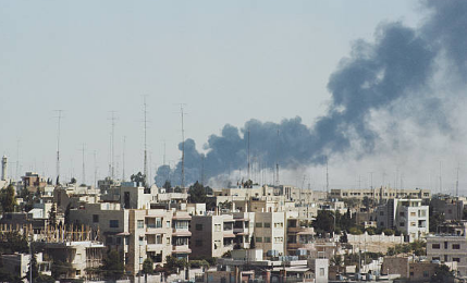 Smoke rises above Amman during Black September, 1 October 1970